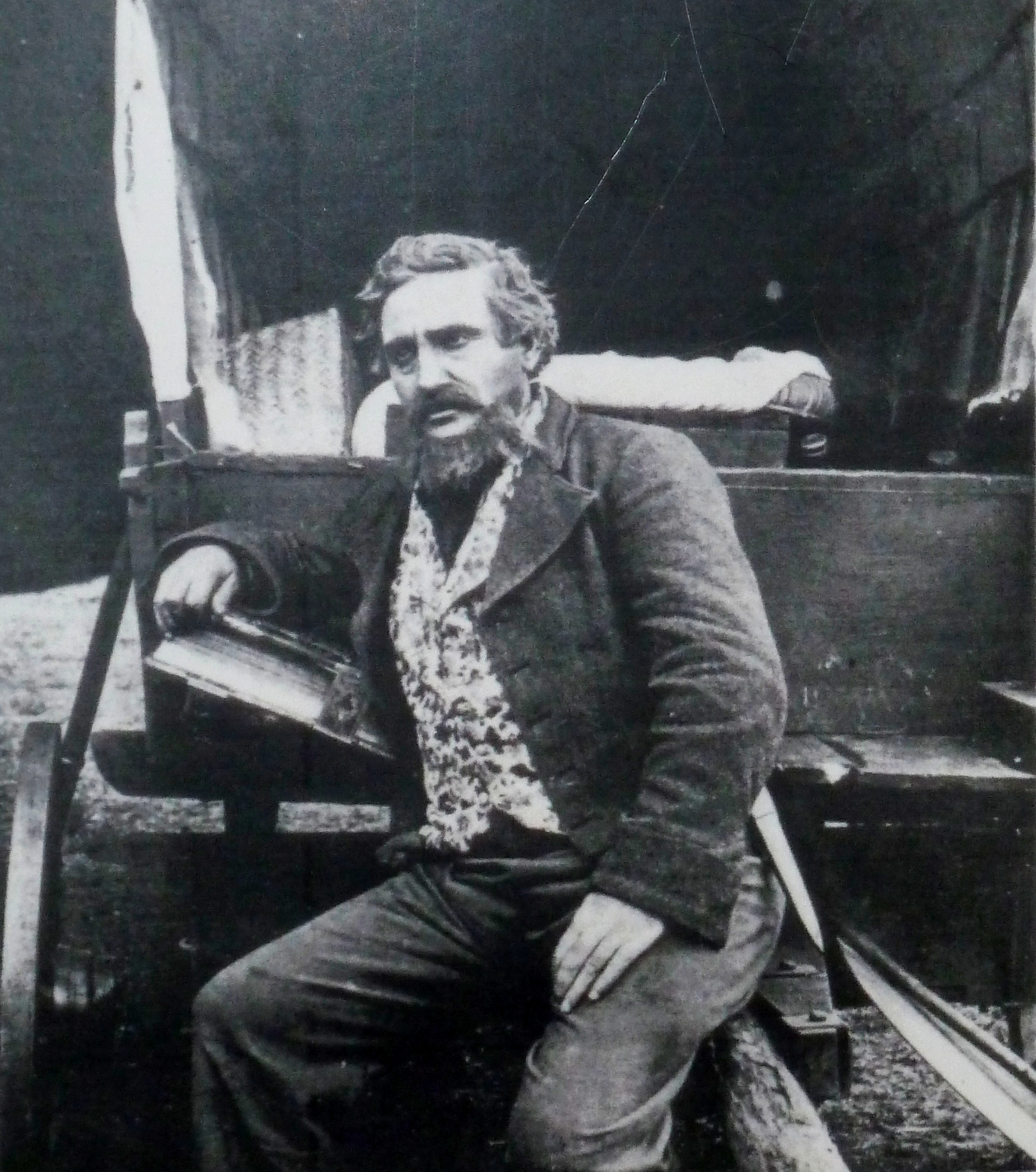 Dick Cruikshanks vertolk Piet Retief in die 1916-film, "De Voortrekkers" (Engels: "The Voortrekkers", of "Winning a Continent" in die VSA). Dit is vervaardig vir African Film Productions Ltd., gebaseer op 'n konsep van Gustav Preller, deur filmregiseur Harold Shaw van die London Film Company. Die film is by 1916 se Dingaansdagviering te Paardekraal, Krugersdorp, bekendgestel.[1]